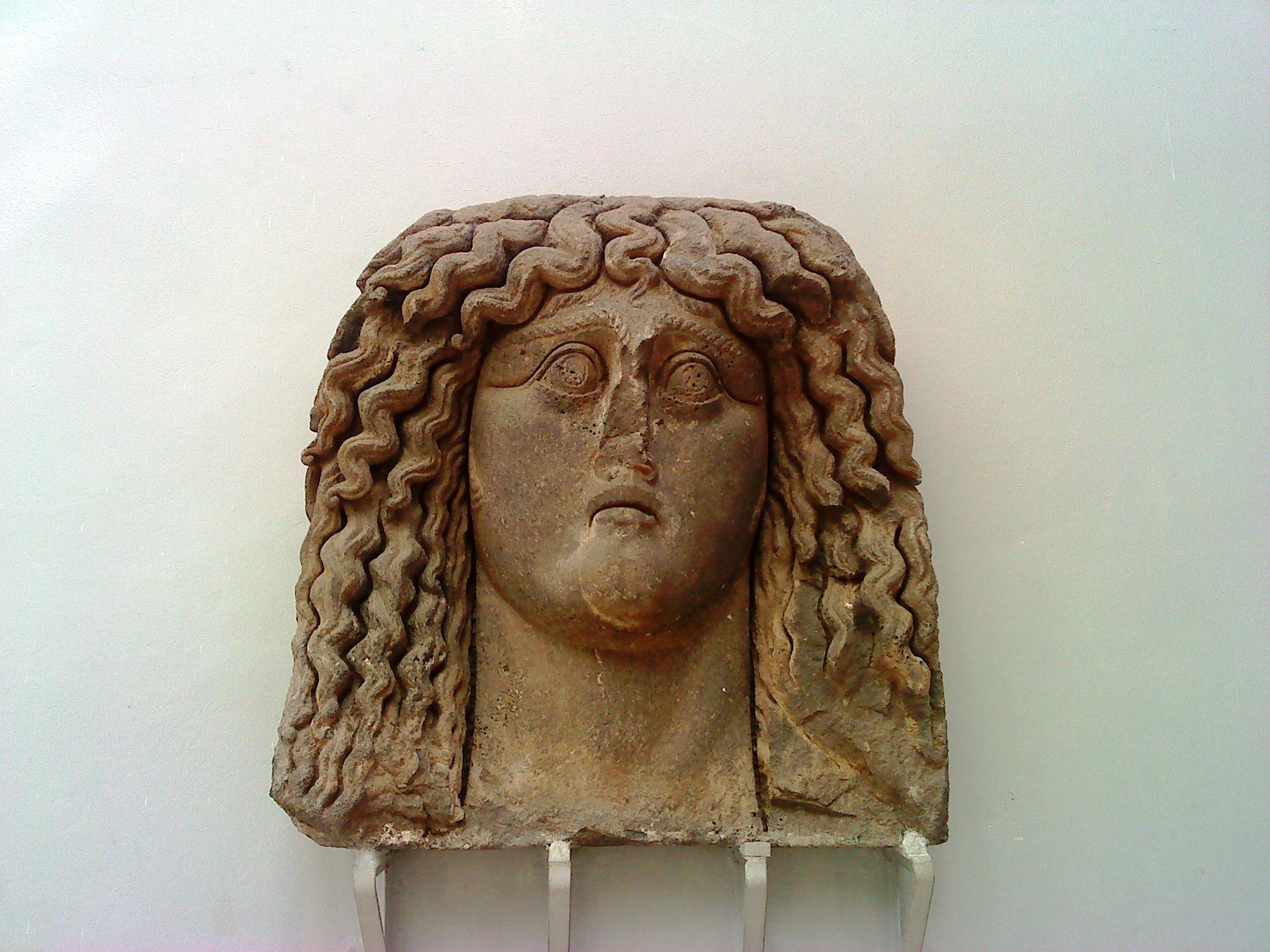 swaida museum